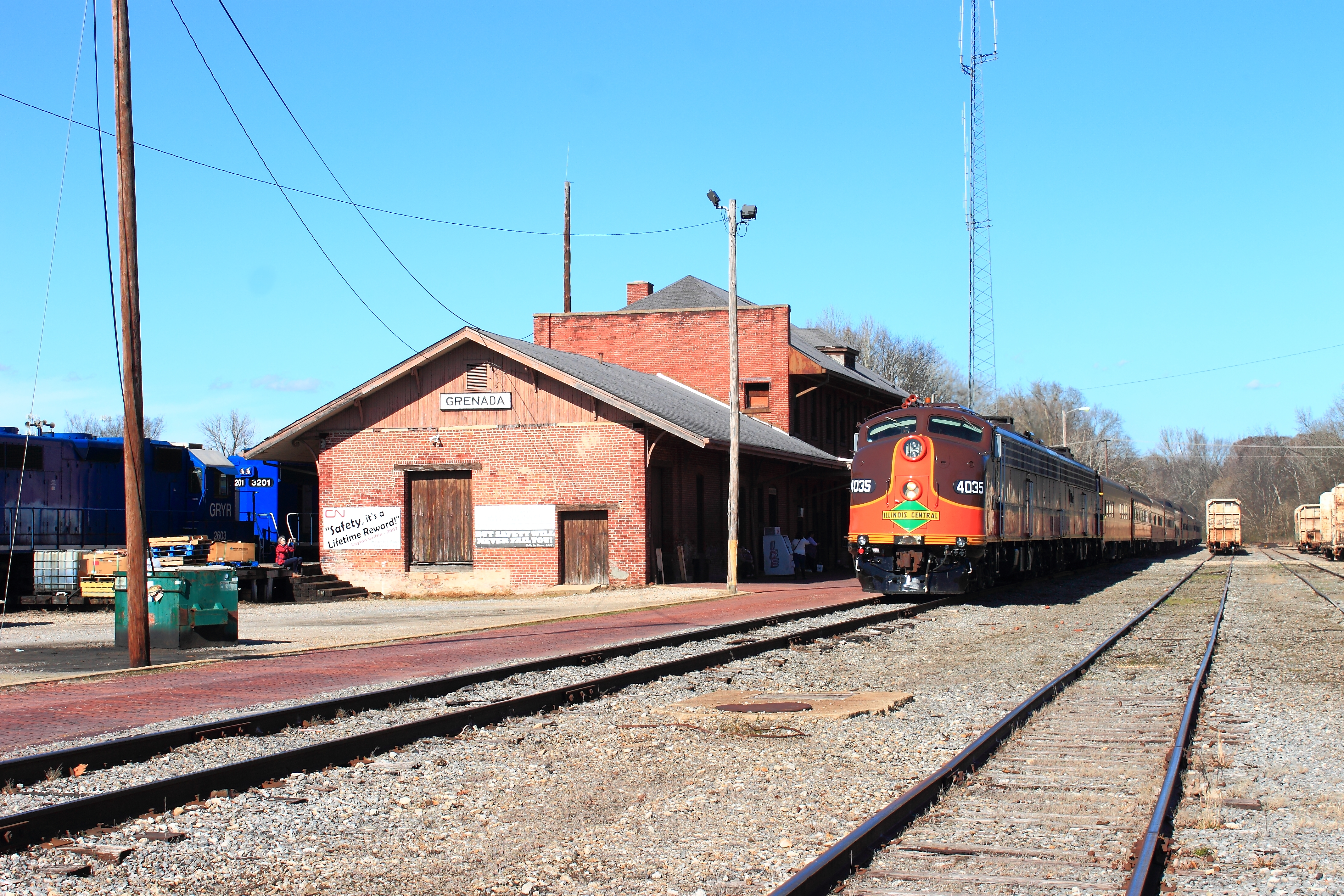 Pulling into Grenada Station